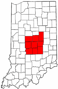 Public domain map courtesy of The General Libraries, The University of Texas at Austin, modified to show counties. See Wikipedia:U.S. county maps.